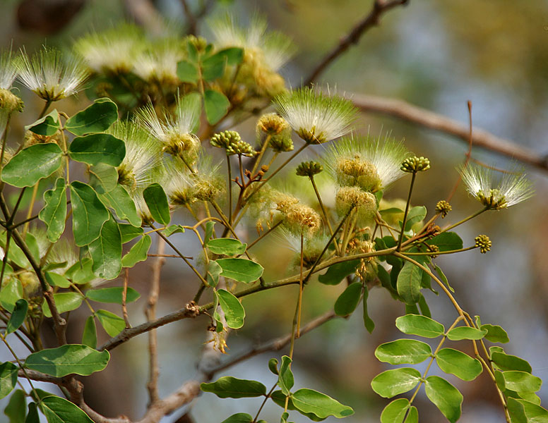 Siris, Sirin, Kalshish, Tantia, Lebbek Tree, Frywood, East India Walnut, Koko or Woman's-tongue-tree Albizia lebbeck in Hyderabad, India.